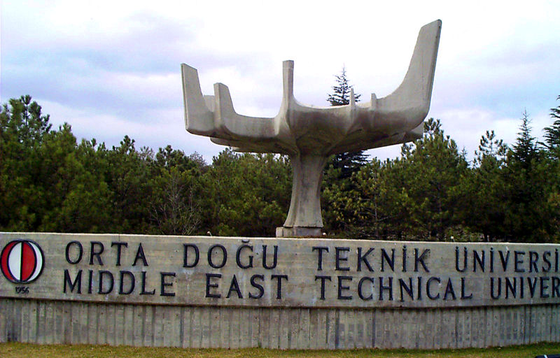 The statue "Tree of Knowledge", situated by the main entrance to Middle East Technical University campus. Photograph taken by Atilim Gunes Baydin, March 27, 2003.